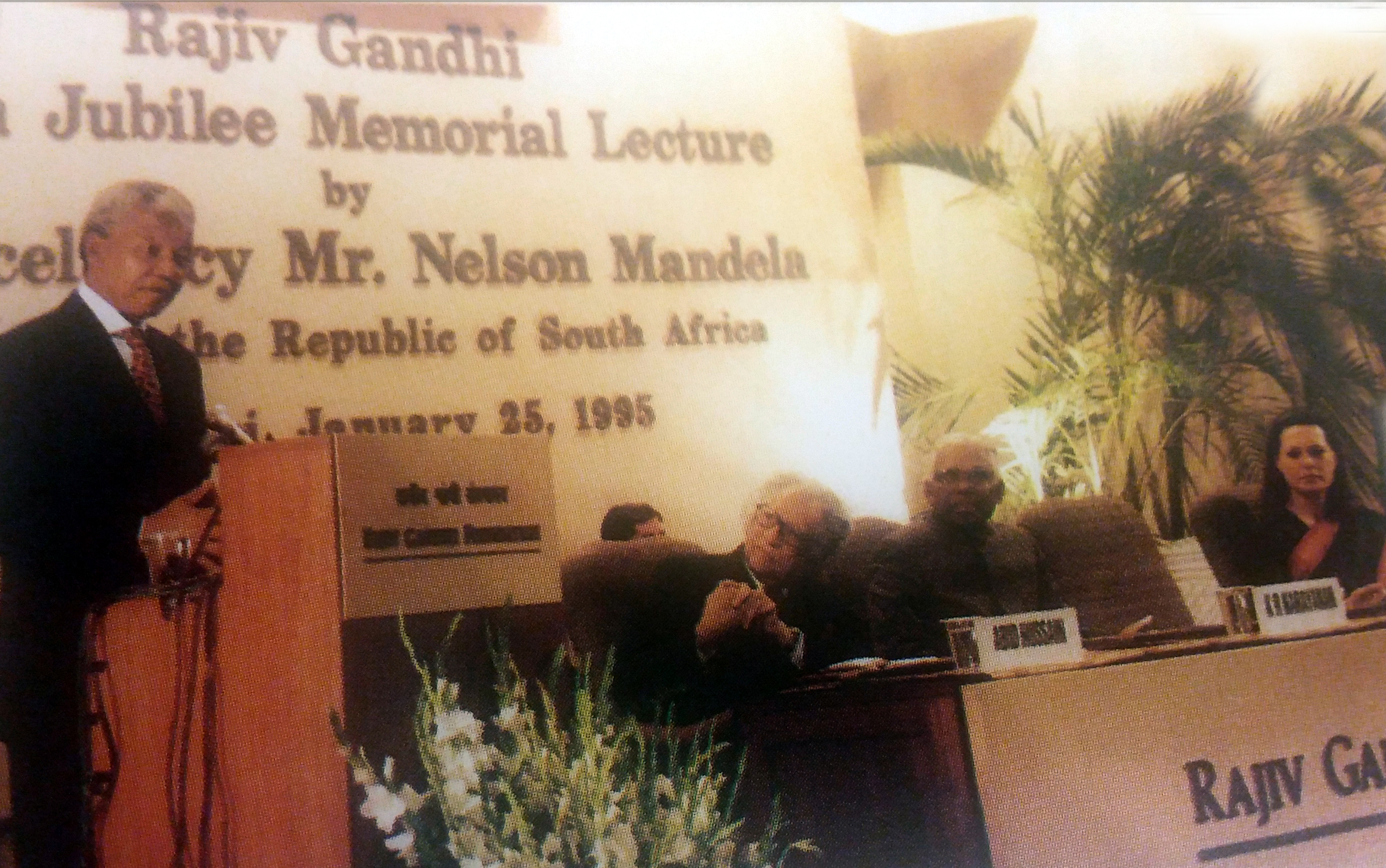 Nelson Mandela speaking at the Rajiv Gandhi Memorial Lecture organised by Rajiv Gandhi Foundation